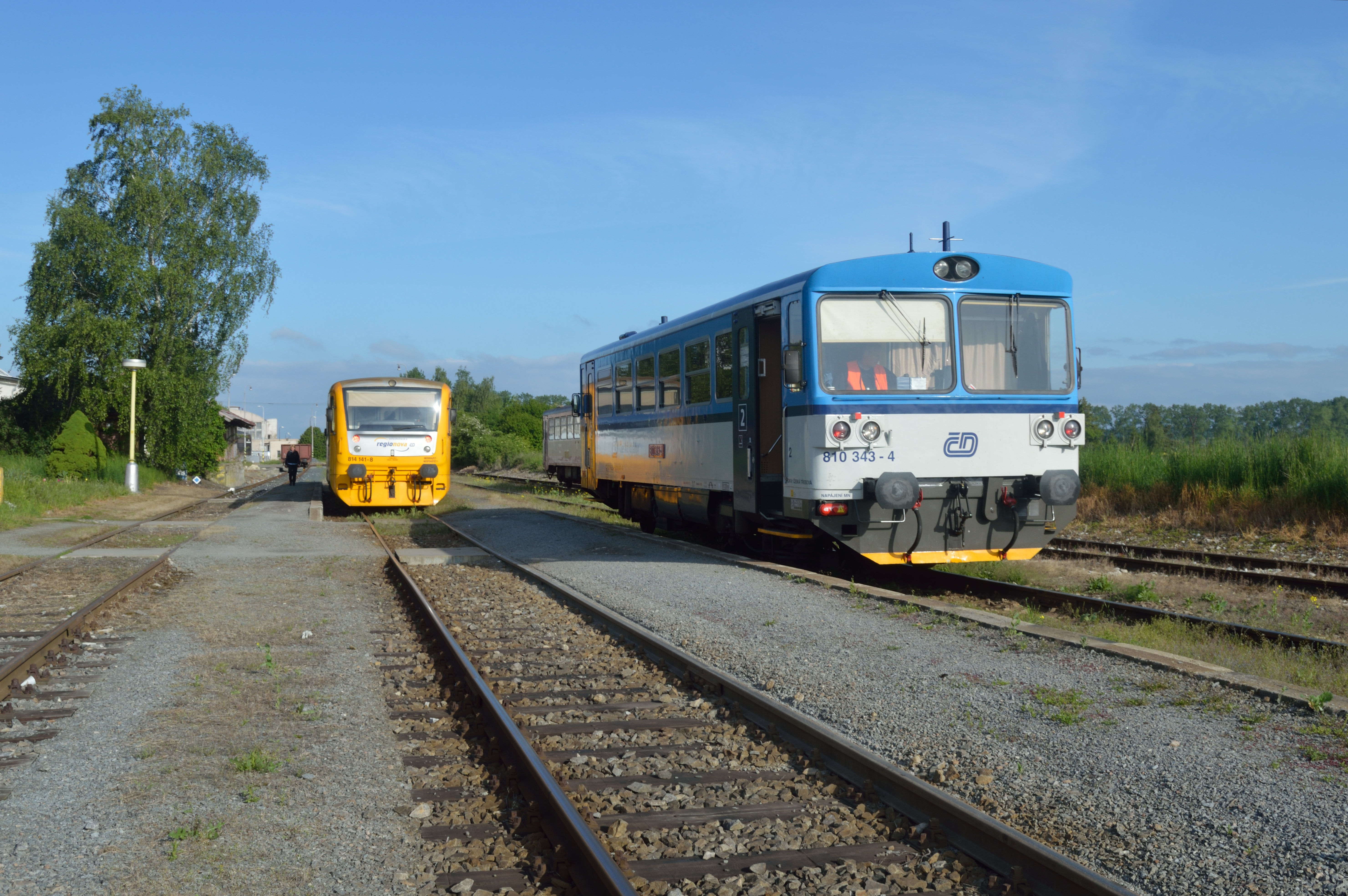 To the left, 814.141 on train Os15602, 08:03 Městec Králové to Nymburk hl.n. To the right is 810.343 on train Os5705, 08:05 Městec Králové to Stará Paka. Date taken is 15 May 2014.